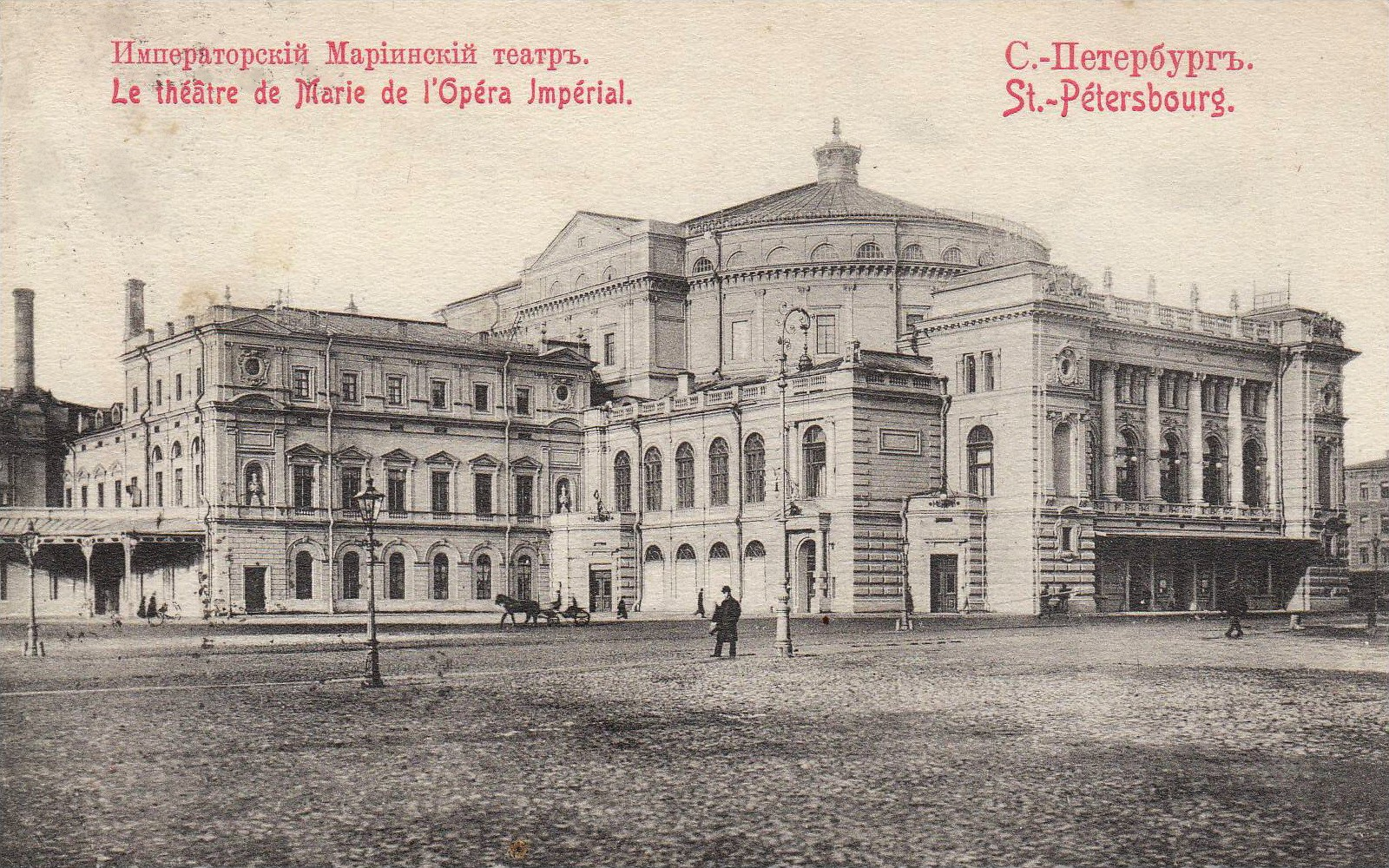 Maryinsky Theater in 1900s